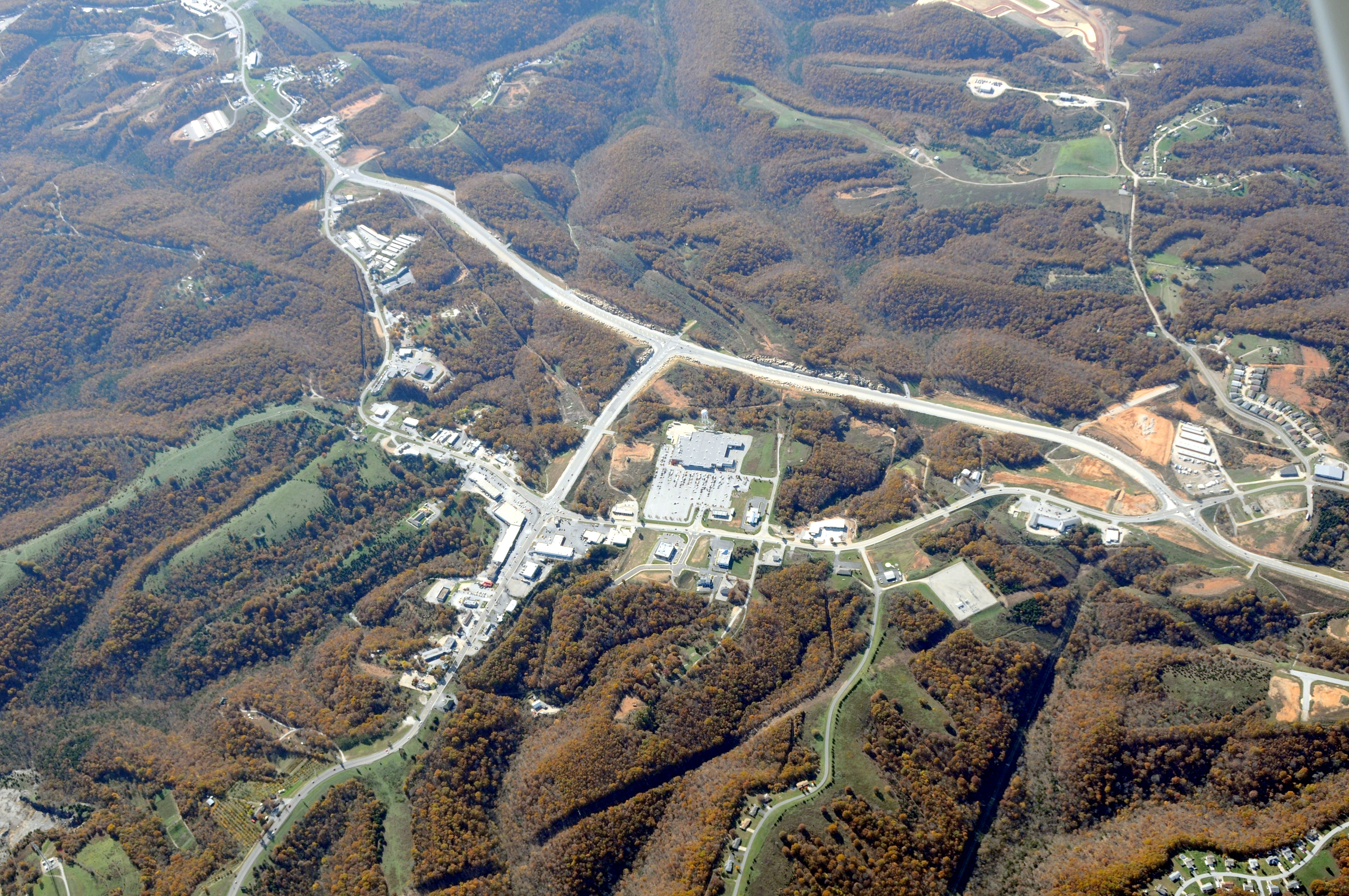 Aerial Photo of Branson West Missouri Oct 24 2009 9000 msl